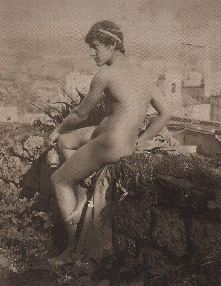 Wilhelm von Plüschow (1852-1930), Classicizing nude portrait of Vincenzo Galdi (1895 ca.), at Mergellina, located on the hill of Posillipo (Naples), behind the church of Piedigrotta, whose belltower can be noticed behind the model. Galdi become a photographer of the male and female nude himself, until 1907.